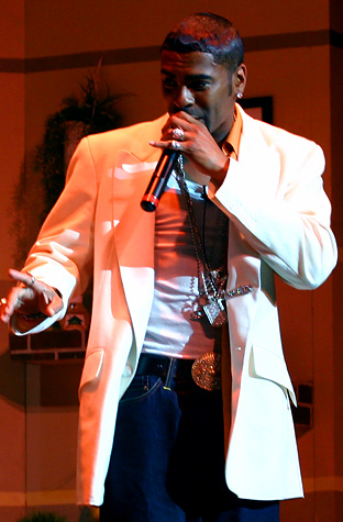 photograph of Ginuwine